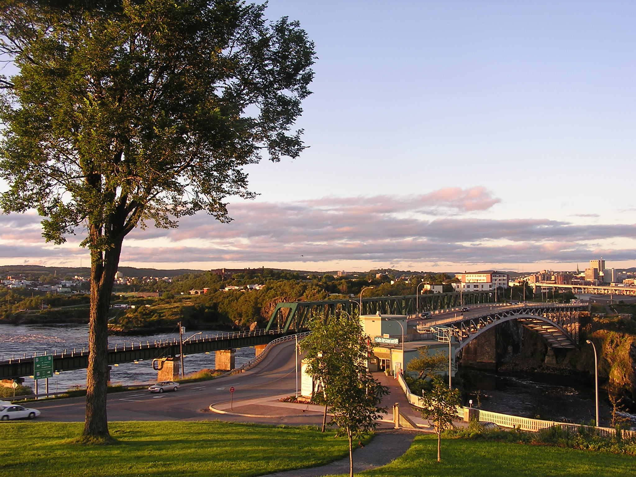 I took this photo in July 2006 and am putting it here in the Commons for all to use.